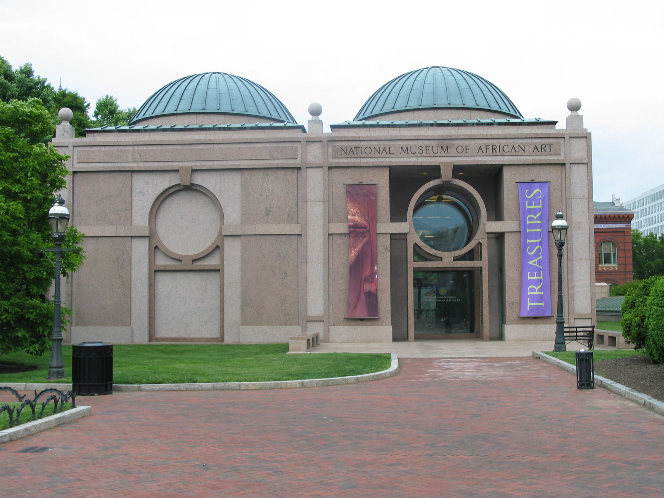 The National Museum of African Art. Taken by User:Isomorphic during the Wikipedia field trip to D.C., May 7, 2005. Licensed under GFDL and any Creative Commons license you like.